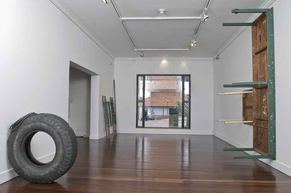 Danilo Dueñas Exhibition on Galeria Casas Riegner.